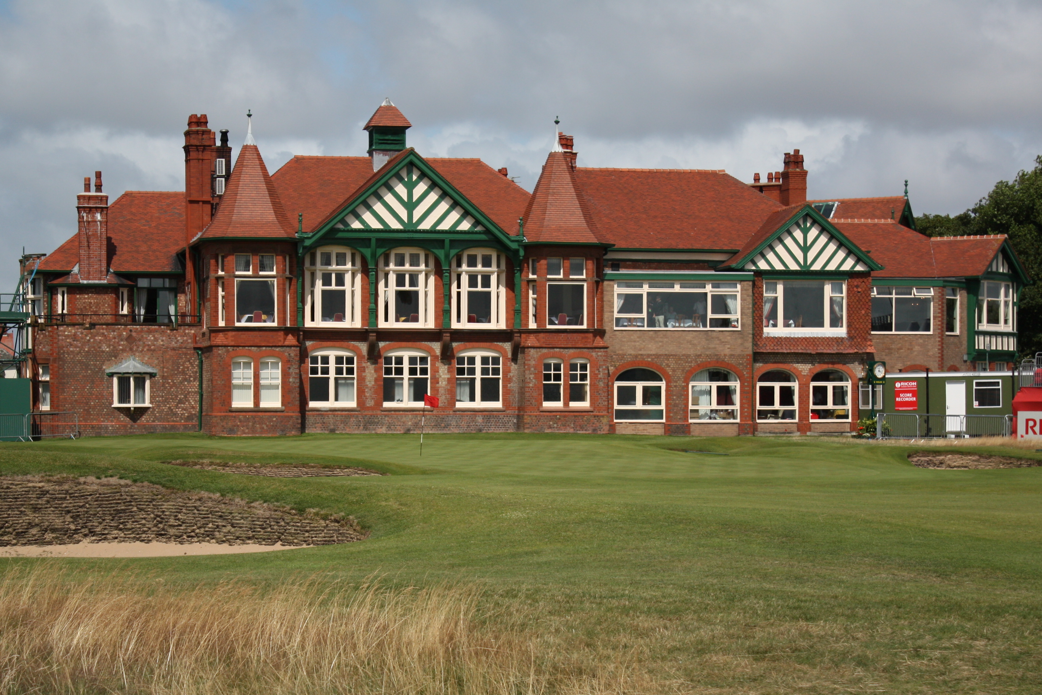 LYTHAM ST ANNES, UNITED KINGDOM - JULY 27: 18th hole green and the club house before 2009 Ricoh Women's British Open held at Royal Lytham & St Annes on July 27, 2009 in Lytham St Annes, England. (Photo by Wojciech Migda)